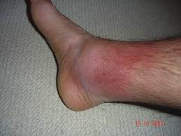 Patients with Familial Mediterranean Fever also present with erysipeloid skin rashes on the legs which mimic cellulitis